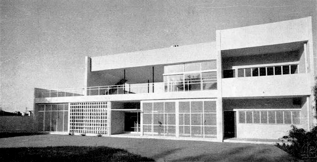 Hussain Jamil Residence, by Rifat Chadirji, Baghdad, 1953